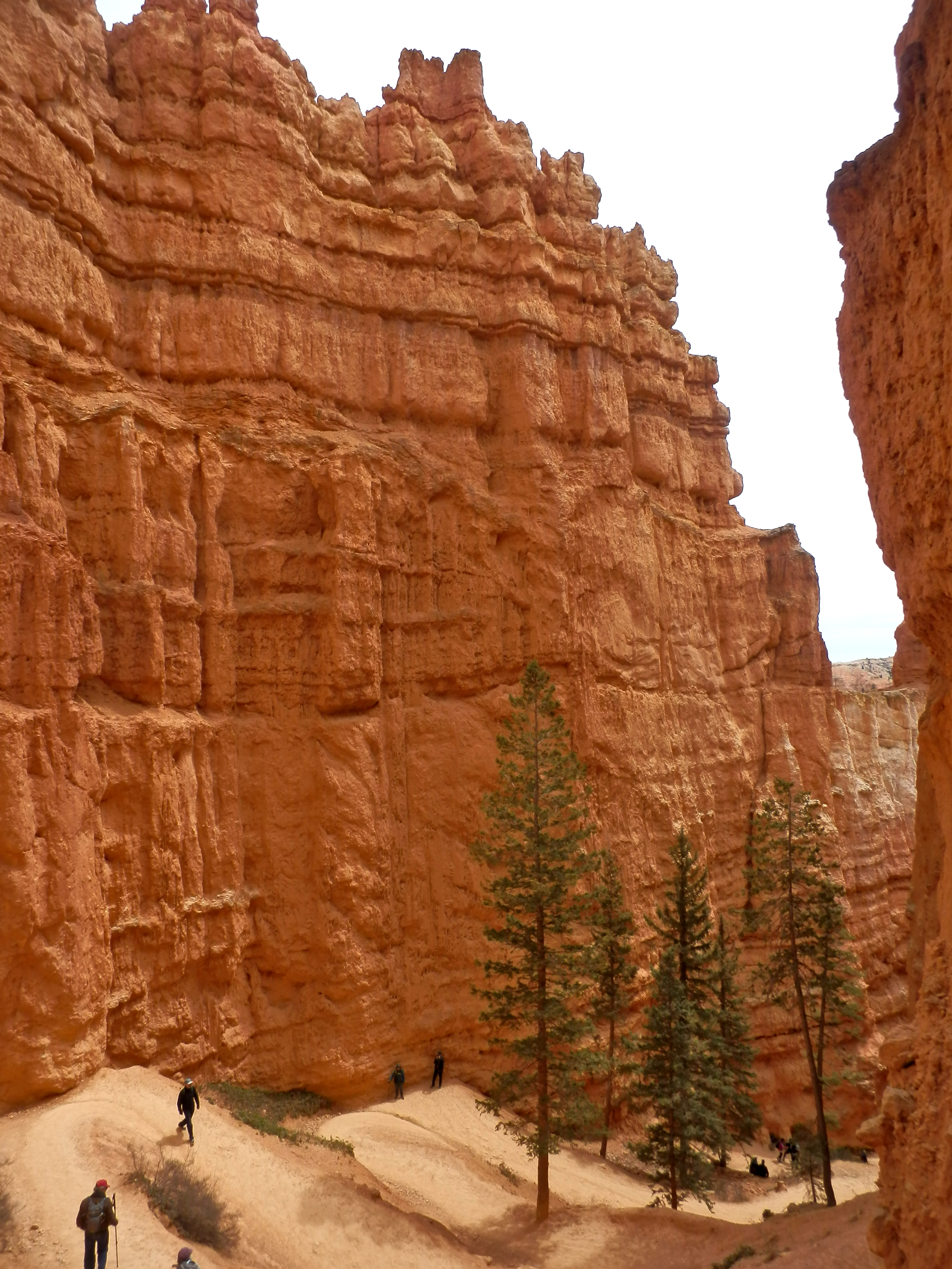 Navajo Loop Trail - Bryce-Canyon-Nationalpark